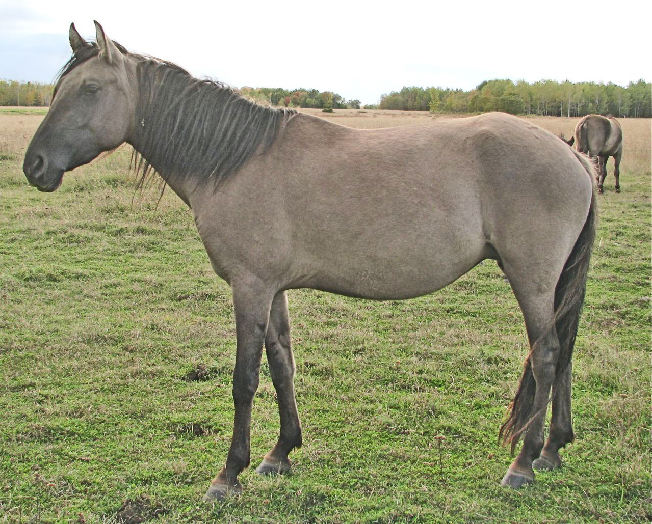 Ciente, a Kiger Mustang mare showing very good Sorraia phenotype. One of the foundation mares of the Ravenseyrie Sorraia Mustang Preserve on Manitoulin Island, Ontario Canada